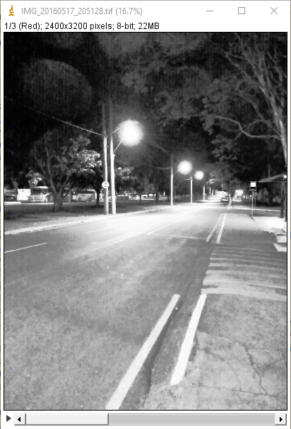 Imagem original após ser equalizada. Fonte: Próprio autor